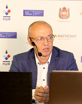 Sergey Shipov at Superfinal of the Russian Chess Championship, Satka, 2018